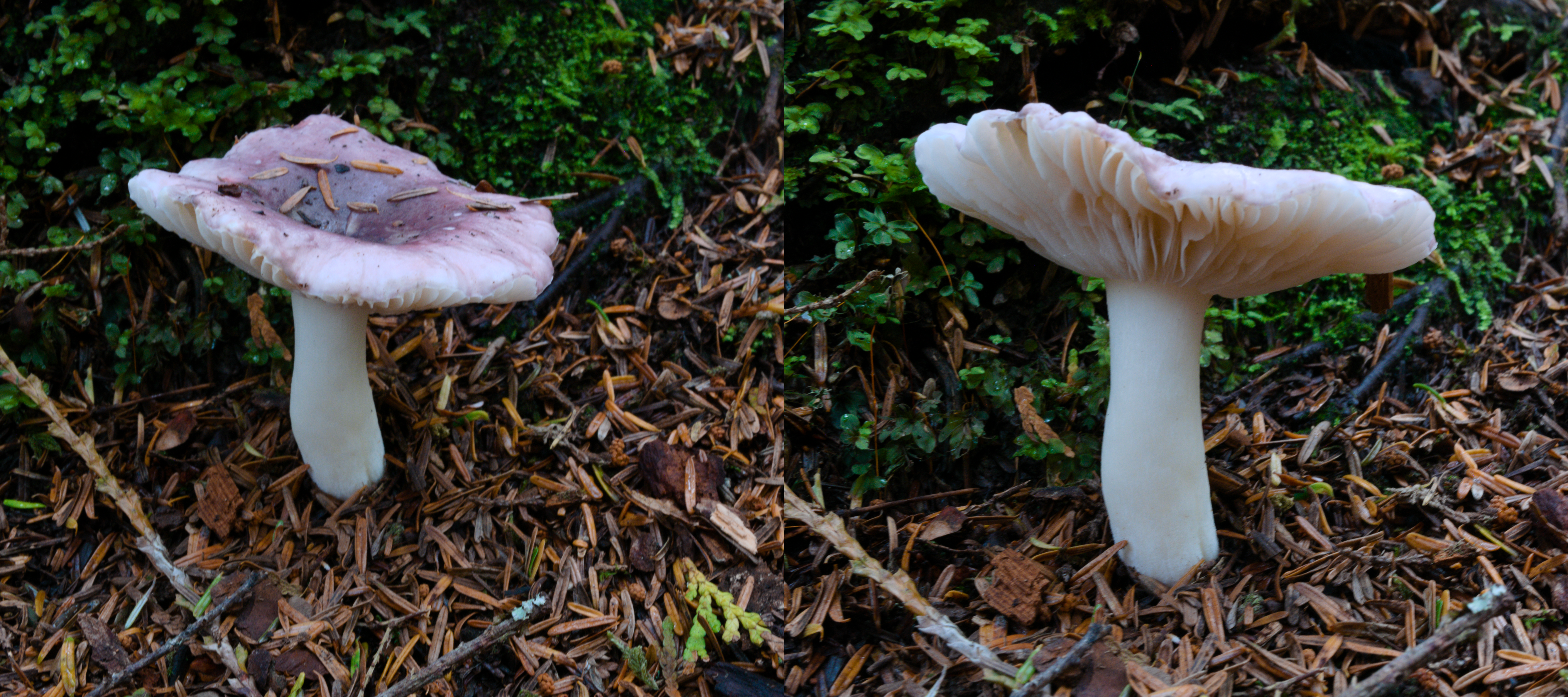 Two views of a mature Purple Brittlegill (Russula atropurpurea) on Kaien Island, British Columbia, Canada. Note the concave cap, and that the colour has washed off near the rim.